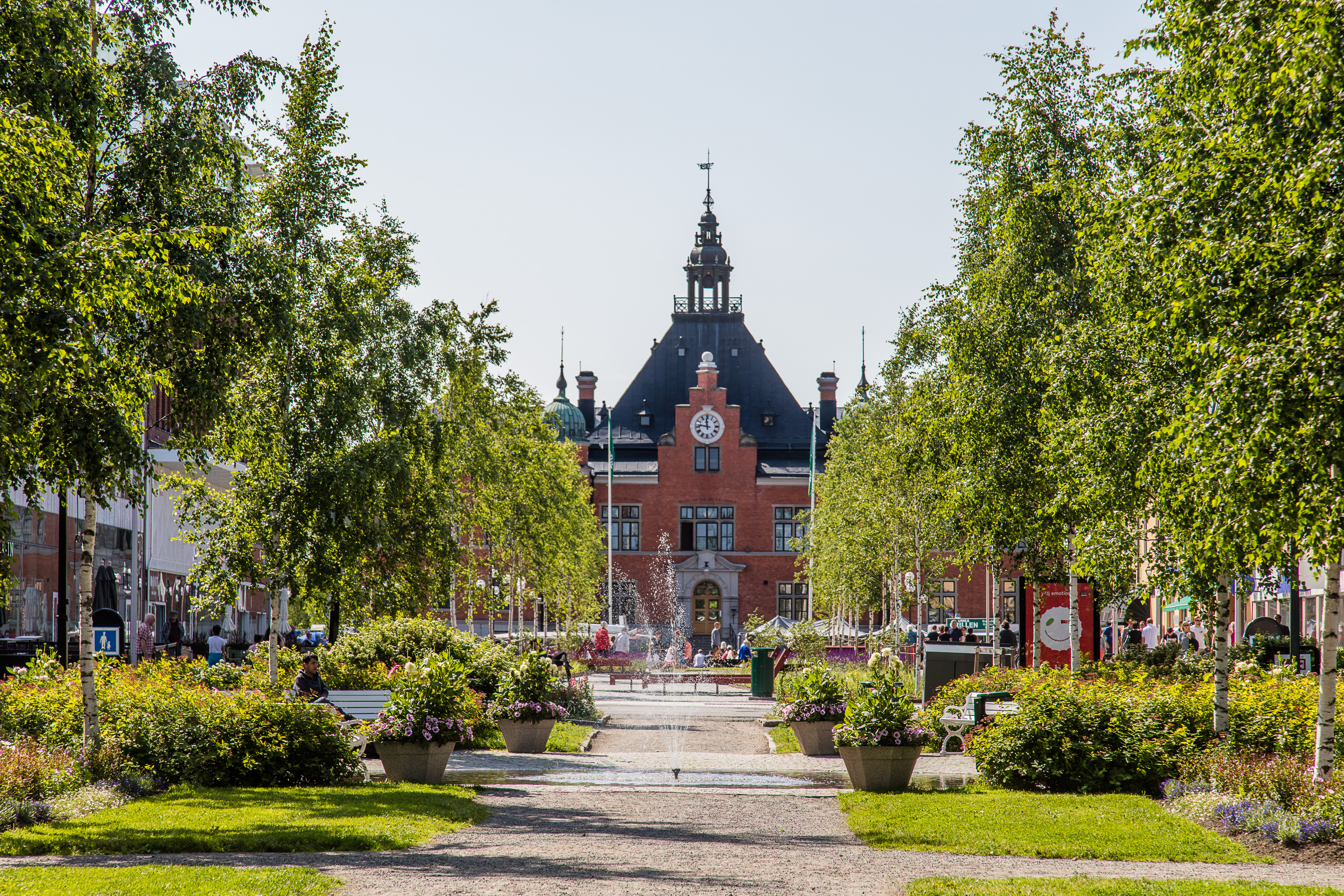 Rådhusesplanaden is lined with birches between Umeå Central station and the City Hall.